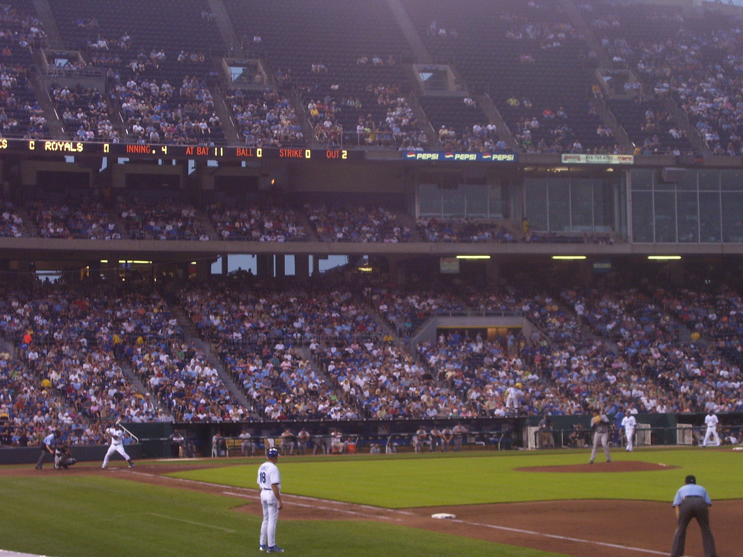 Kansas City Royals vs. Colorado Rockies, at Kauffman Stadium in Kansas City, Missouri. June 24, 2008. Royals won :)